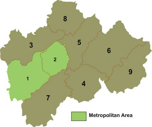 county-level divisions of Jinhua in Zhejiang province, China